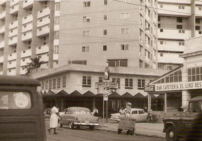 FOCSA Building entrance. Havana. Cuba.